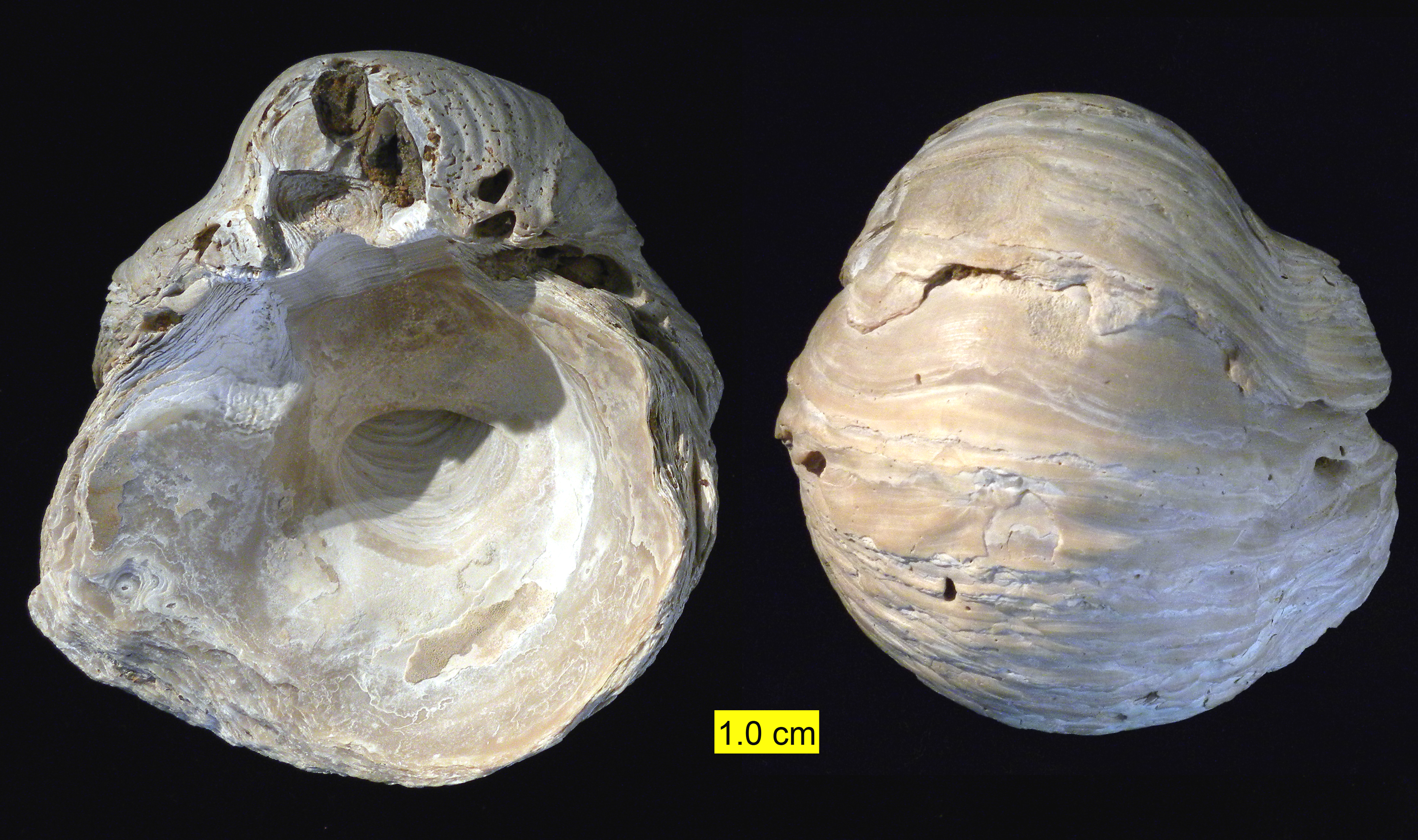 Gryphaea sp. from the Cretaceous of Texas; left valve interior and exterior (same specimen).